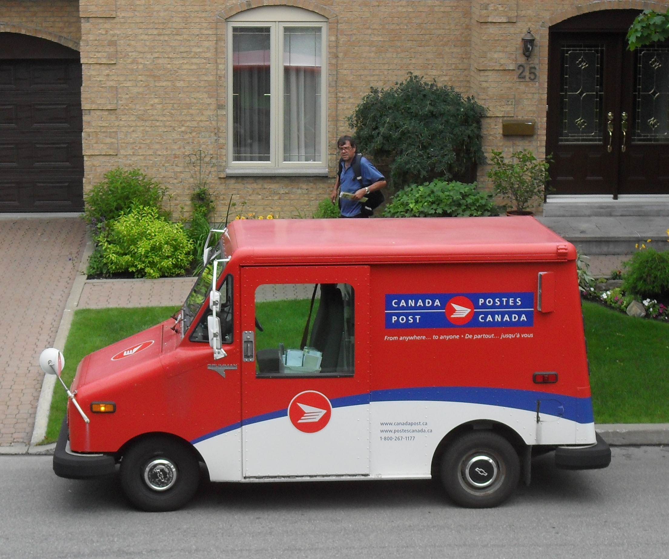 Canada Post LLV in service